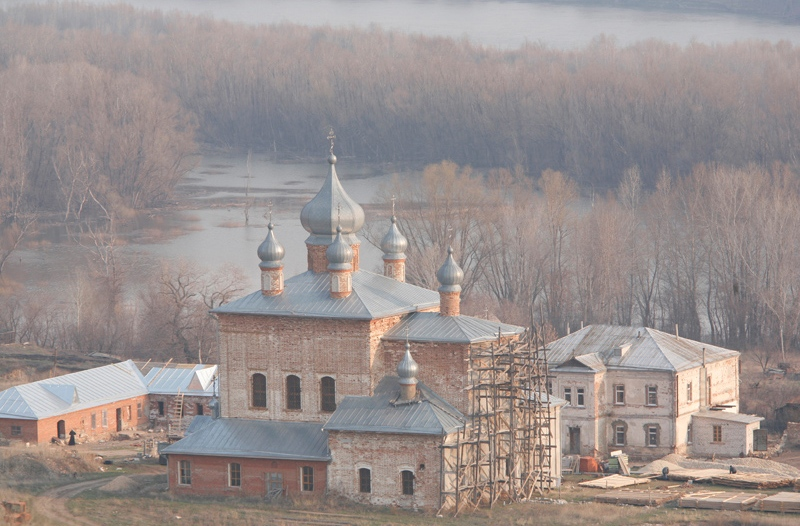 Holy Ascension Monastery Kremensky. Volgograd Region.